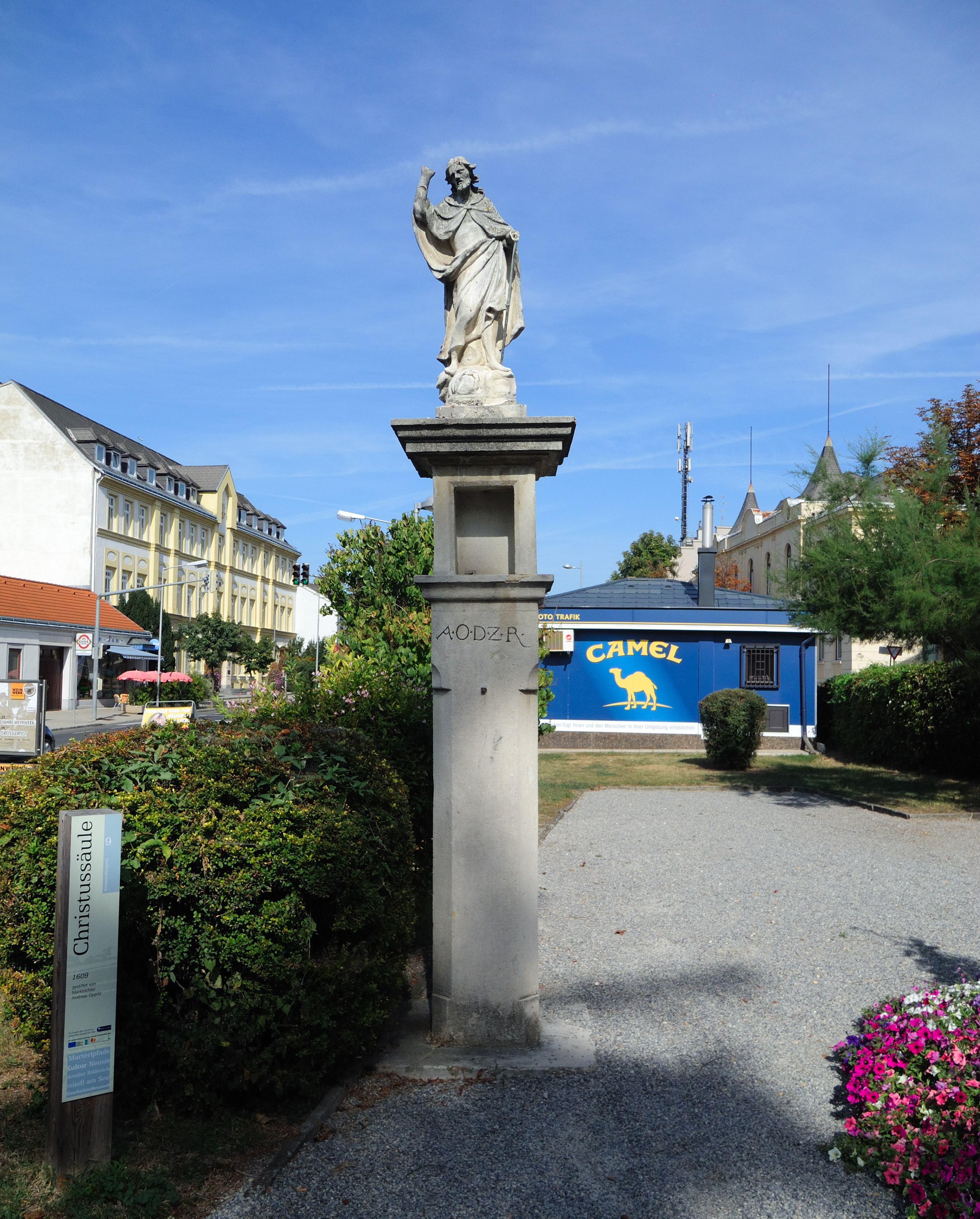 Column with Jesus Christ in Neusiedl am See, Burgenland, Austria